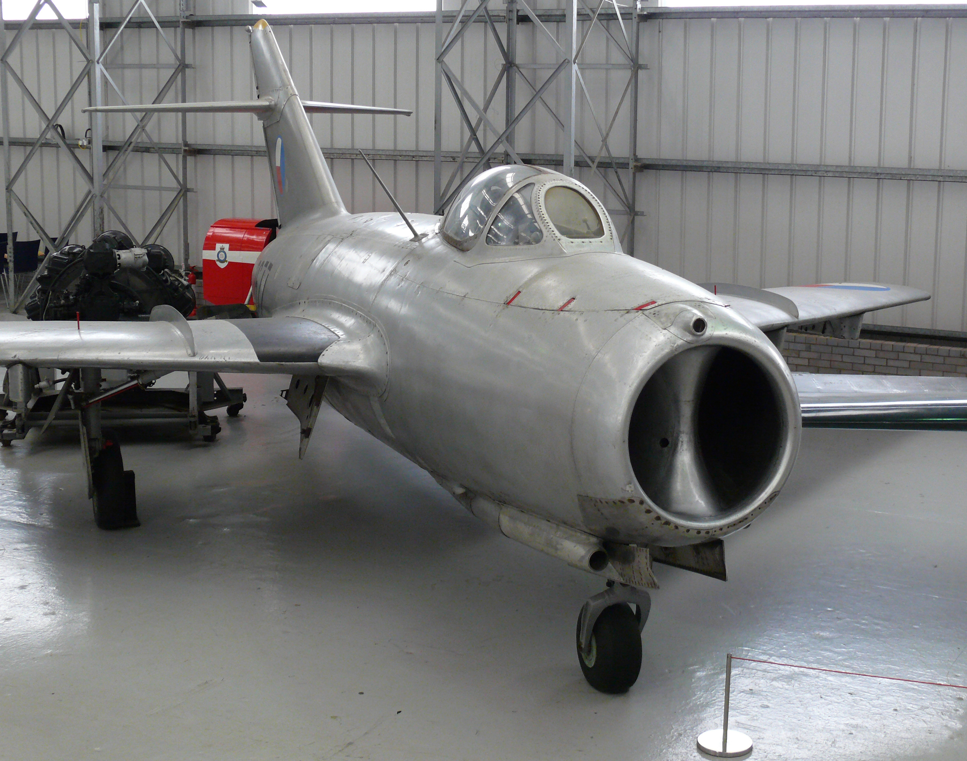 Letov S-103, a Czech built MiG-15bis in the National Museum of Flight in East Fortune, East Lothian, Scotland. Museum Number EF.1993.149